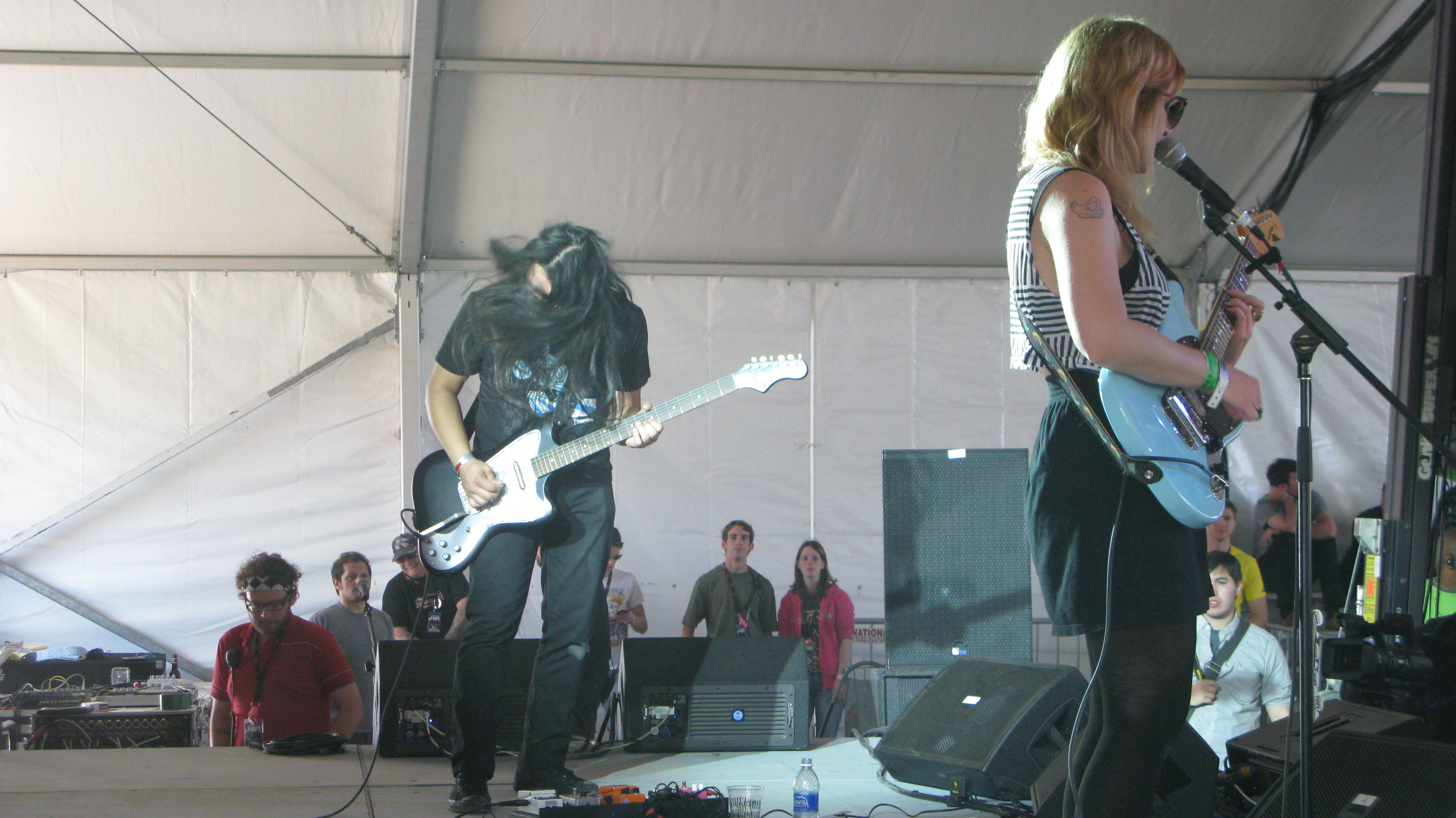 Bobb Bruno (left) and Bethany Consentino performing at the MWTX music event of the South By Southwest conference in Austin Texas in 2011.